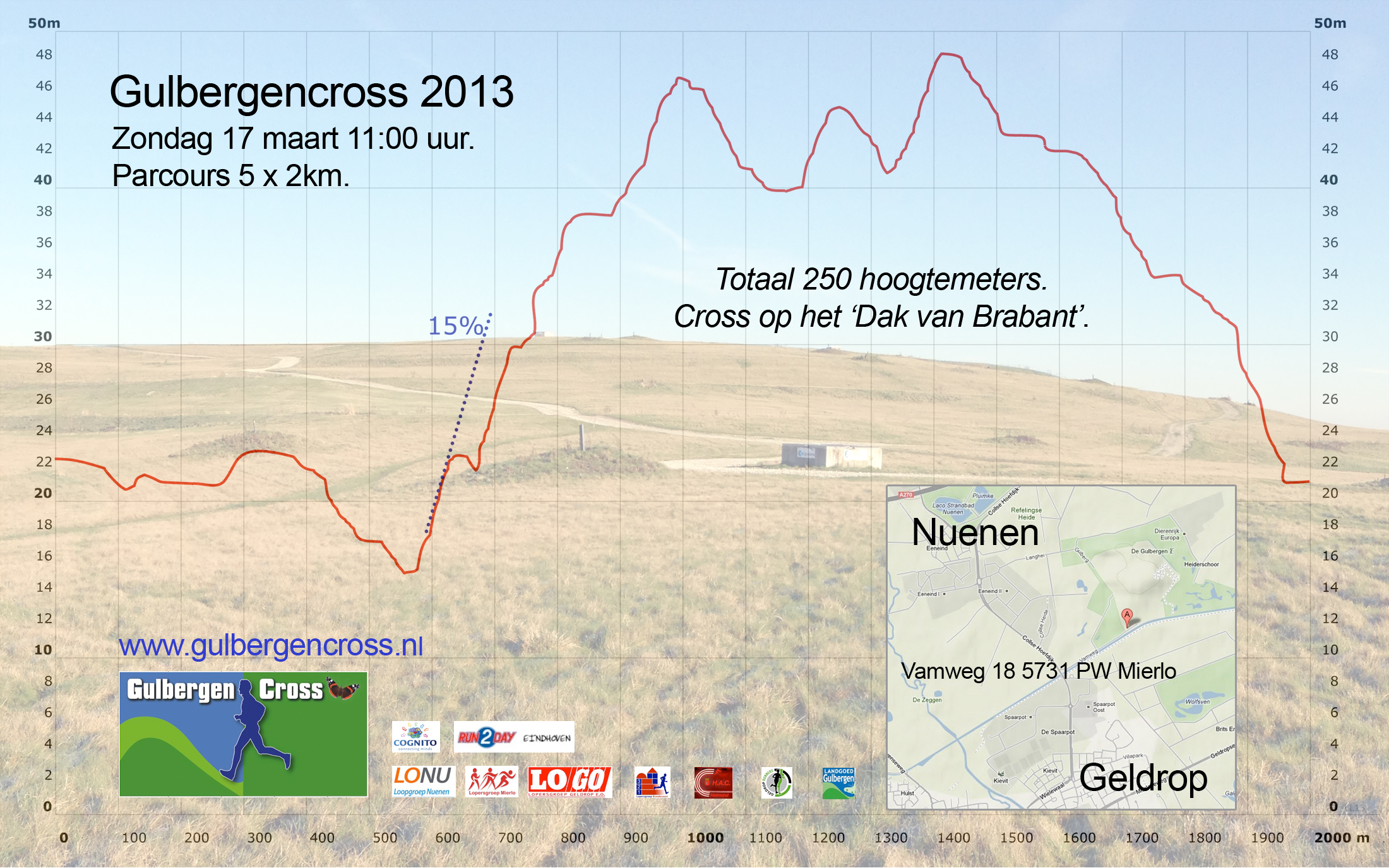 Elucidation of the concept ‘cumulative elevation gain’.